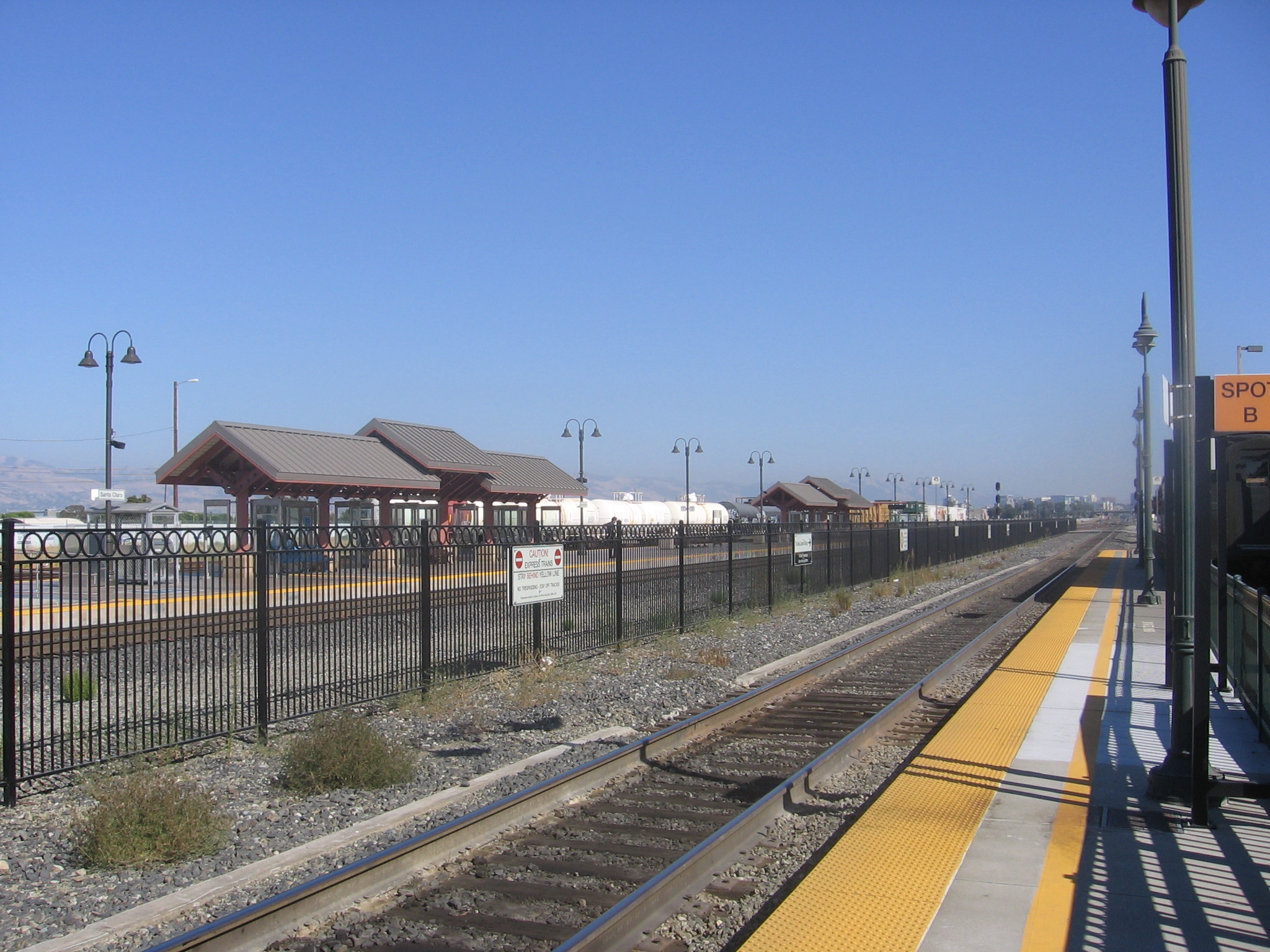 The Santa Clara Station (California) in Santa Clara, California, USA.